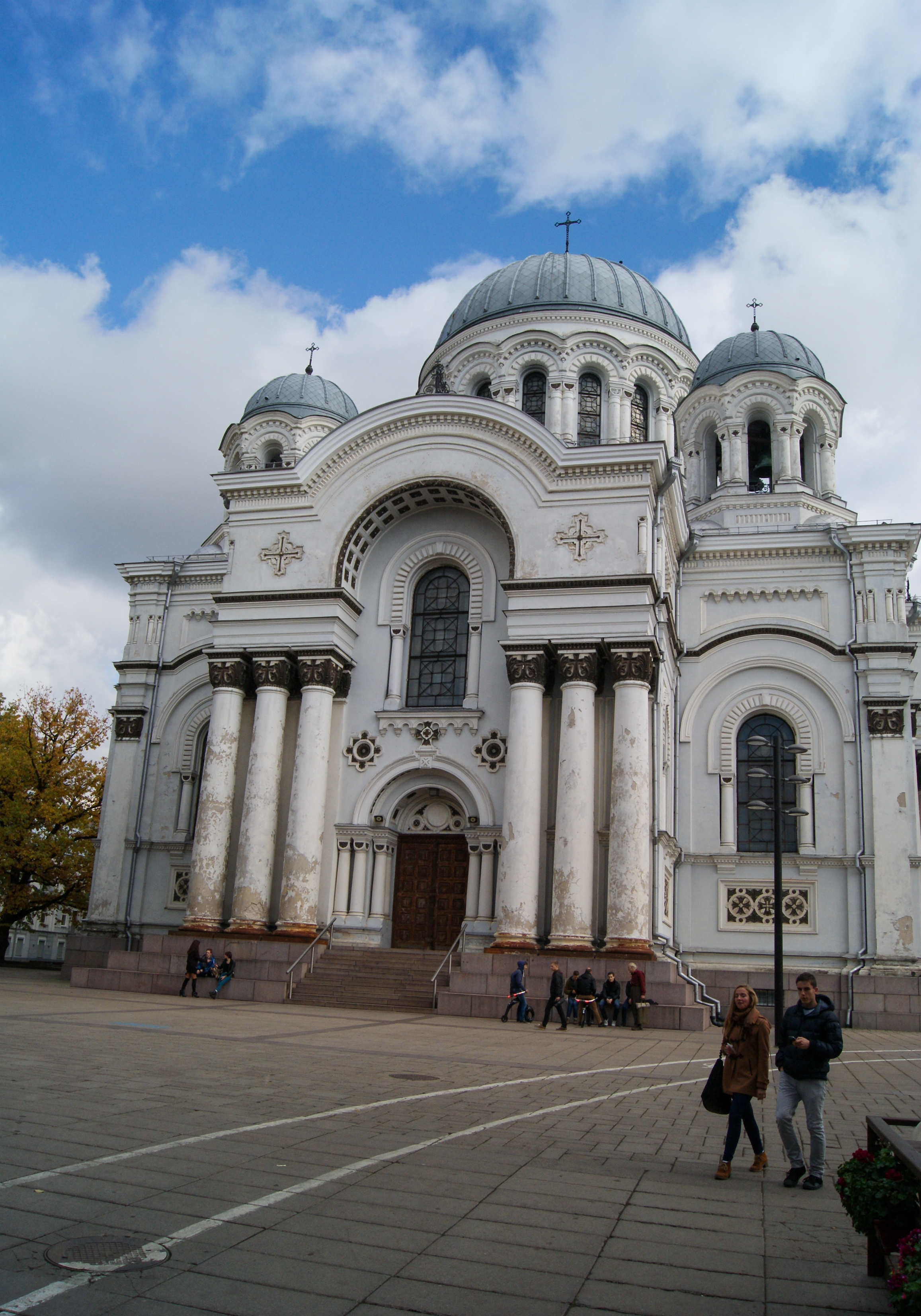 Church of Saint Michael the Archangel, Kaunas